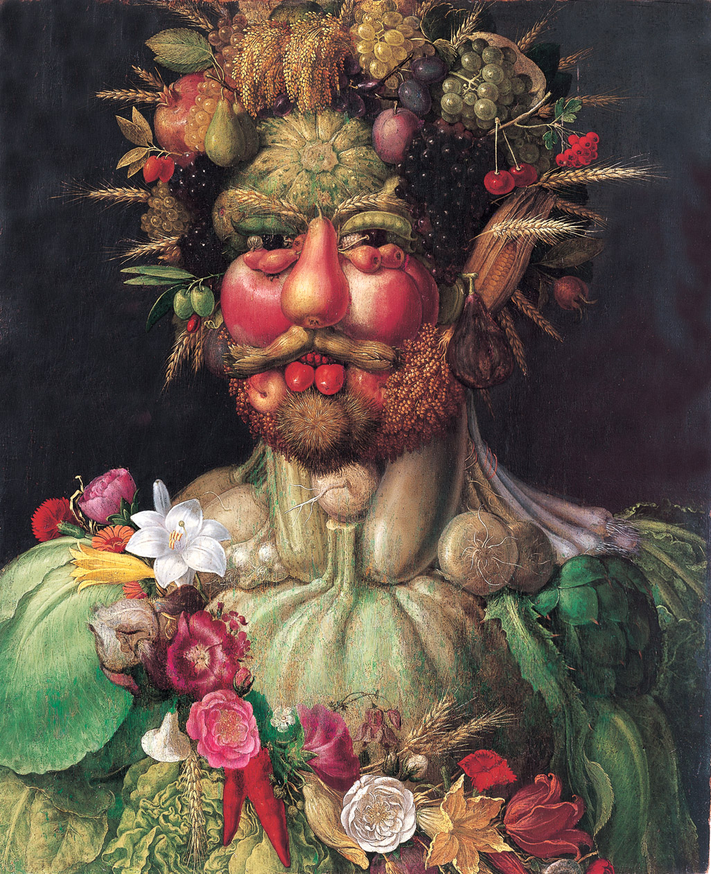 Depicted person: Rudolf II